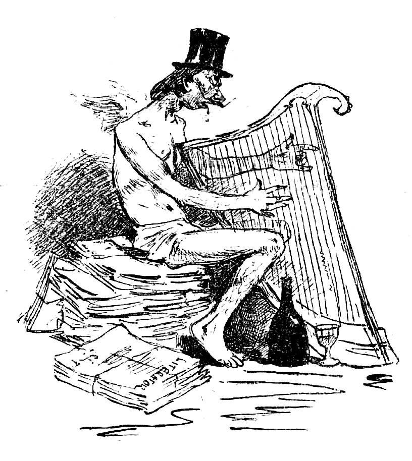 Stereotype of the Romanian Symbolist poets, as published in Ion Luca Caragiale's Moftul Român magazine. The satire targets poet Alexandru Macedonski and his Literatorul journal (the stack of newspaper sheets at the bottom left carries the title Literatorul).